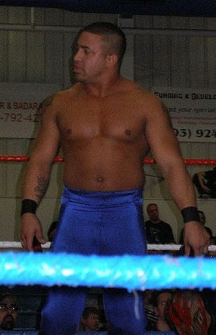 Professional wrestler Xavier at a NEW on April 27, 2007.